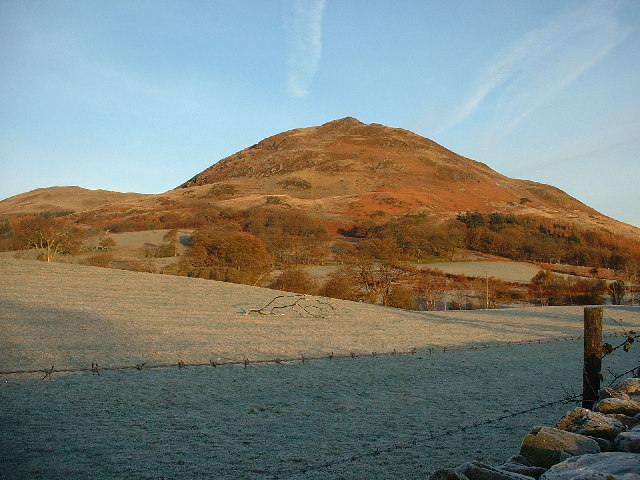 Low Fell